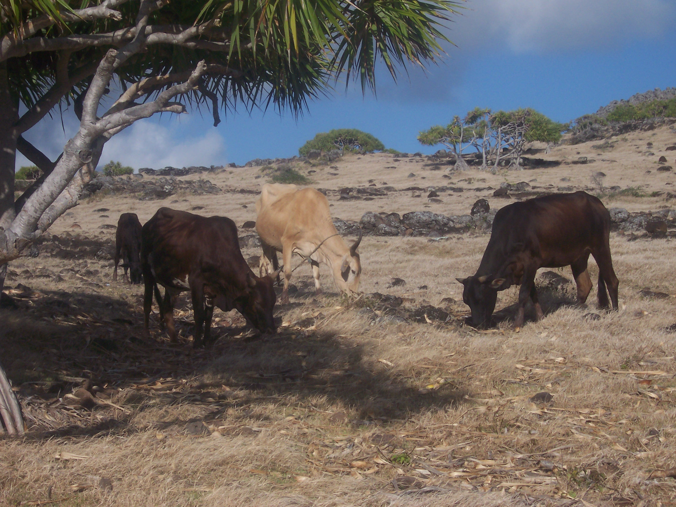 Pandanus heterocarpus (